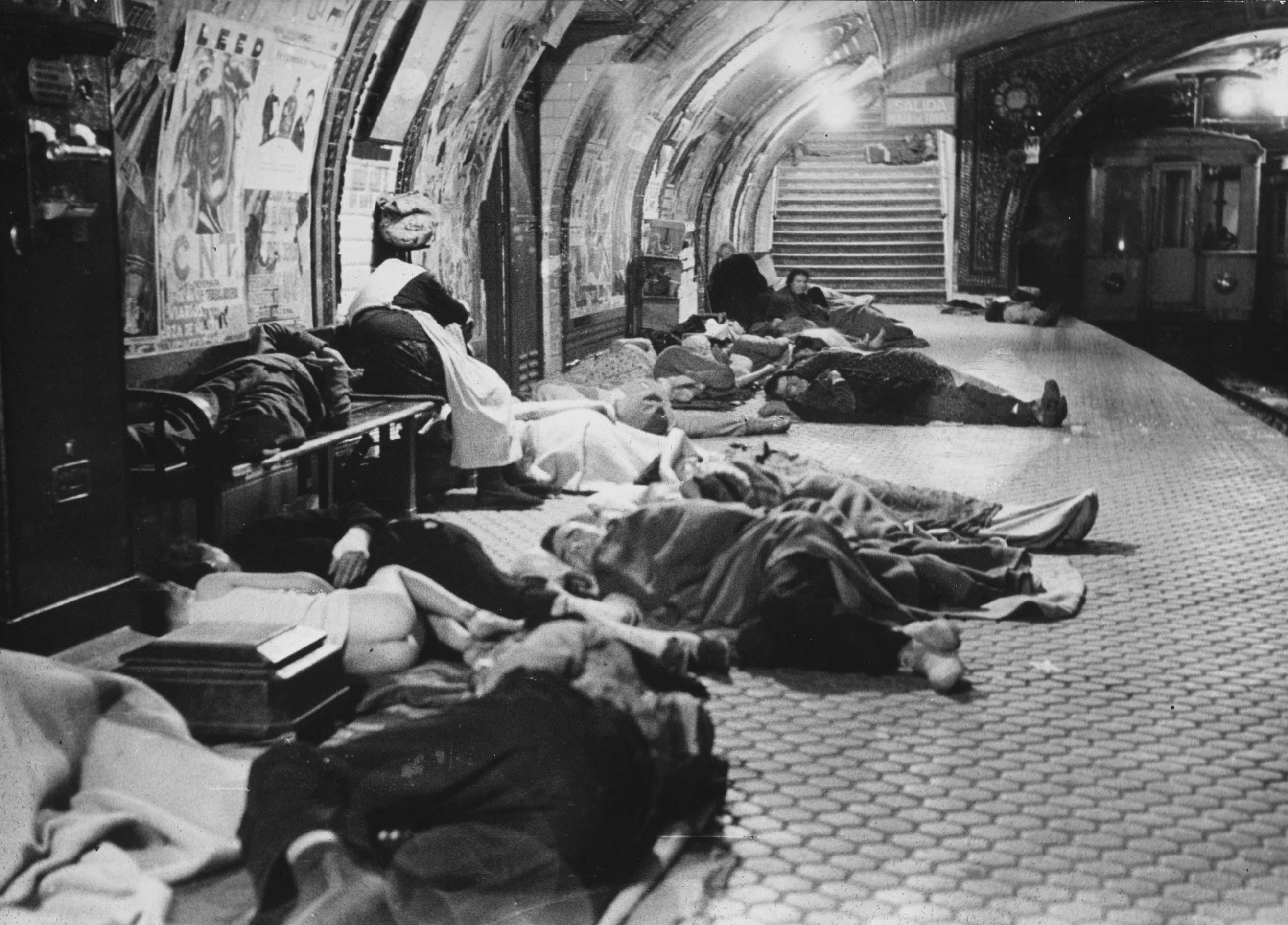 People of Madrid seek refuge in the metro during the Francoist bombings. Year 1937.